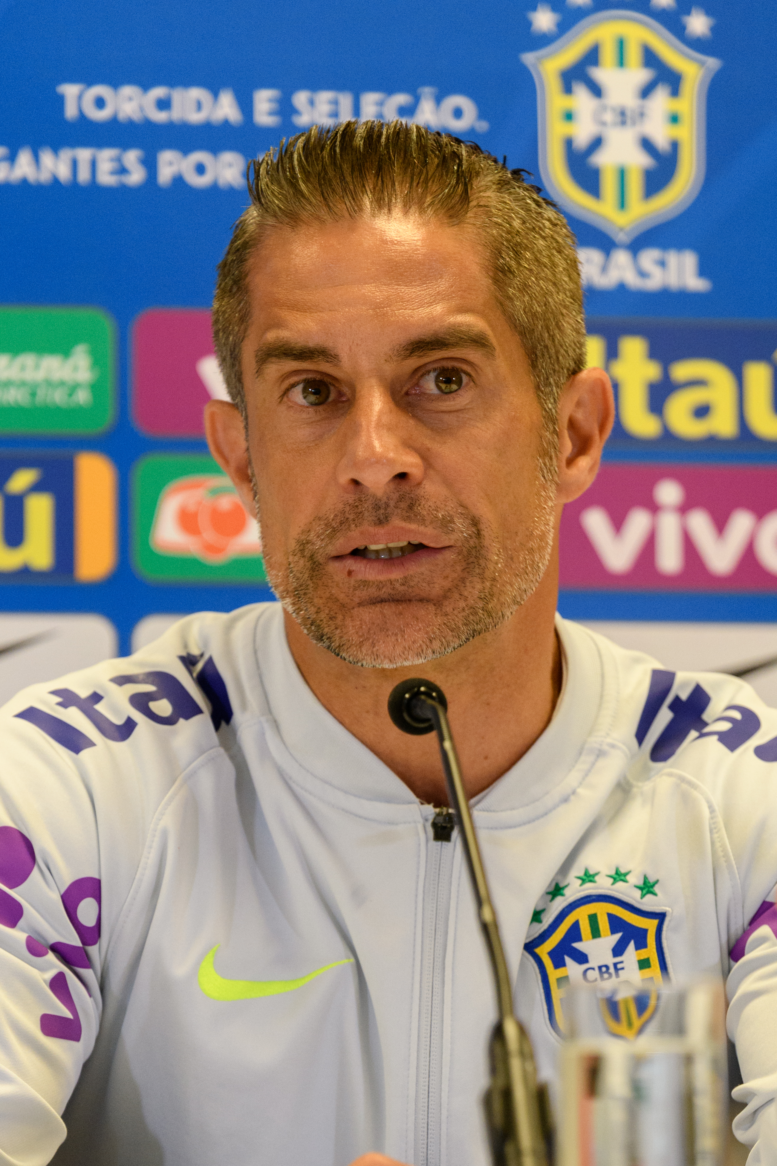 FIFA Friendly Match Austria vs. Brazil 2018/06/10 in Vienna/Ernst-Happel-Stadium. Picture shows Sylvinho